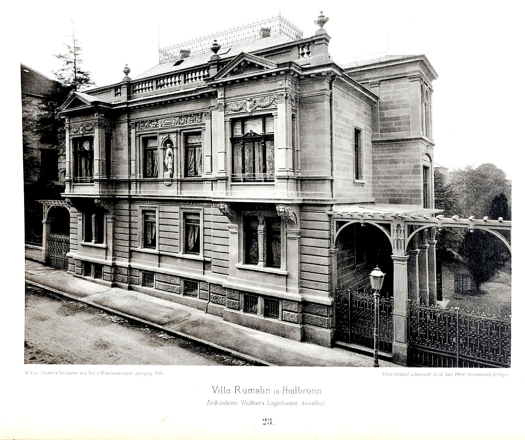 Villa Rümelin, Wilhelmstr., Heilbronn